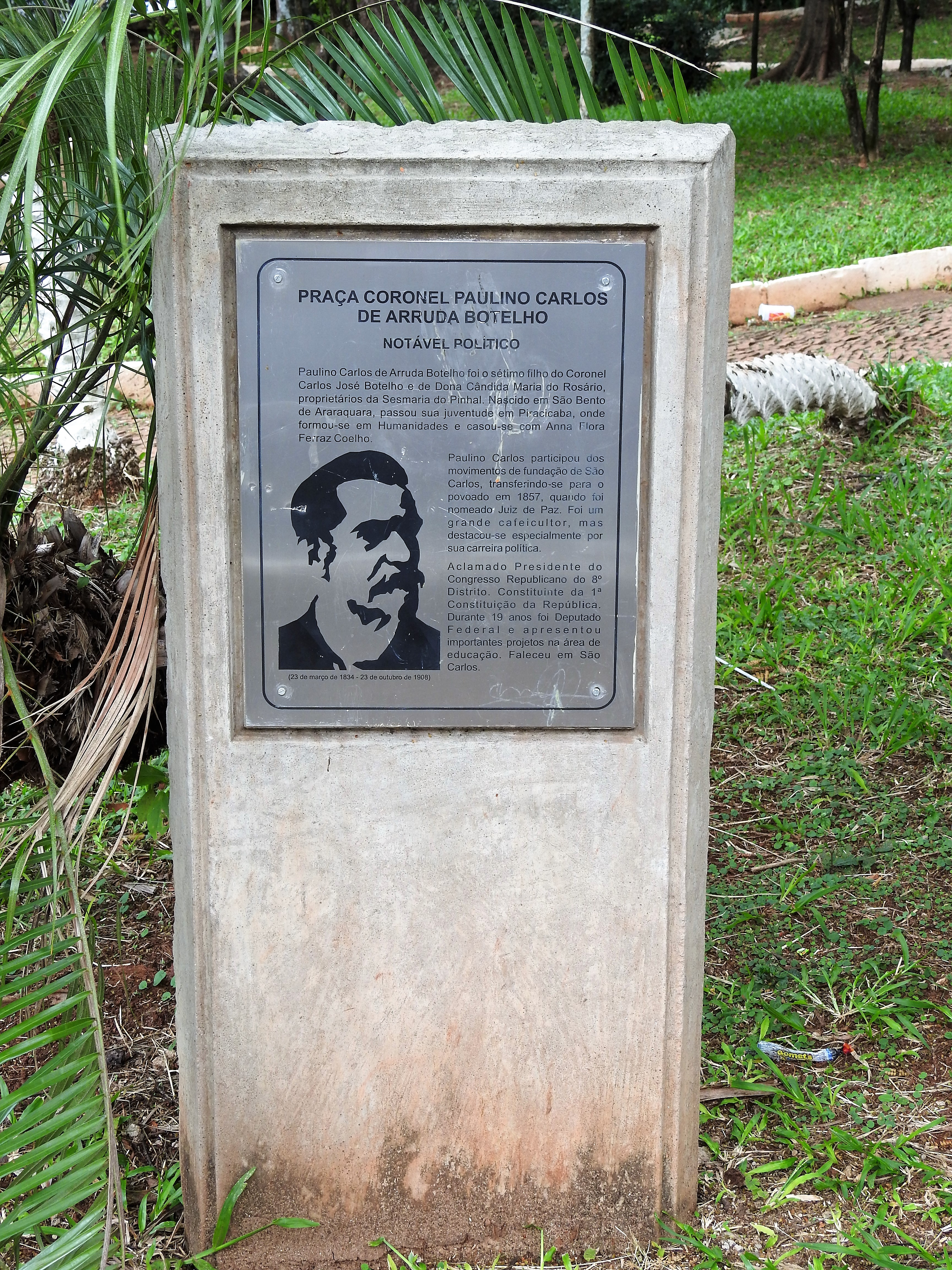 São Carlos is a city of 221,950 inhabitants (IBGE/2010) in the state of São Paulo, Brazil. It is located at 22°01′04″S 47°53′27″W, at about 231 km from the city of São Paulo.